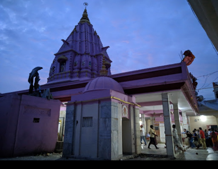 KhereshwarTeample